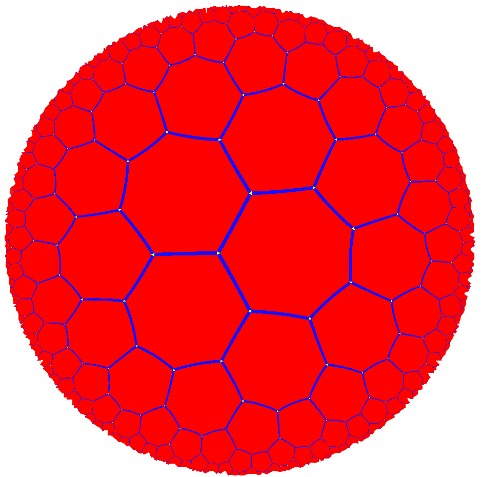 The order-3 heptagonal tiling of the hyperbolic plane, drawn in the Poincaré disk model.